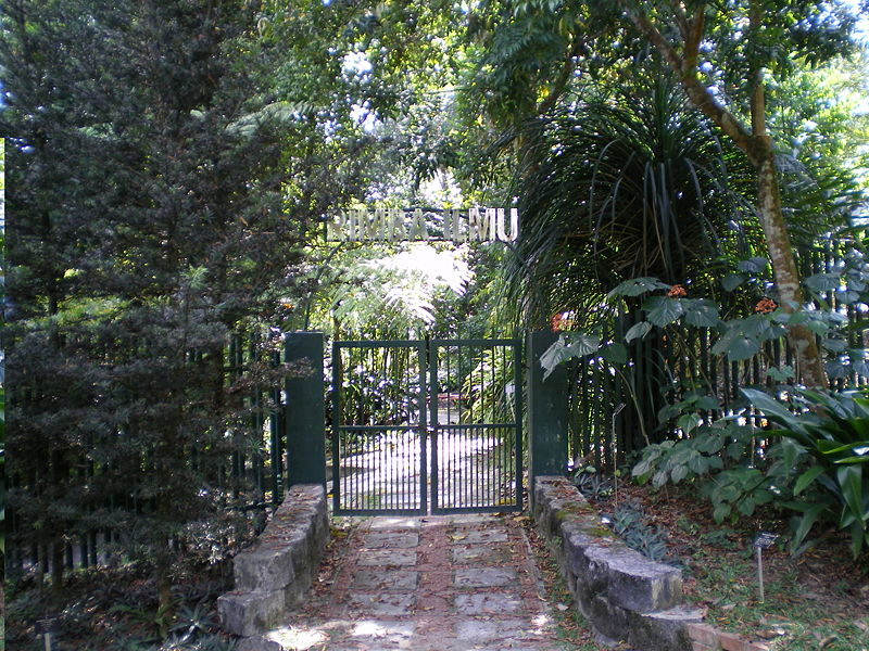 Entrance to the Rimba Ilmu Botanical Gardens — University of Malaya, Kuala Lumpur, Malaysia.